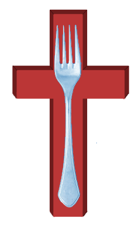 Pastafari cross